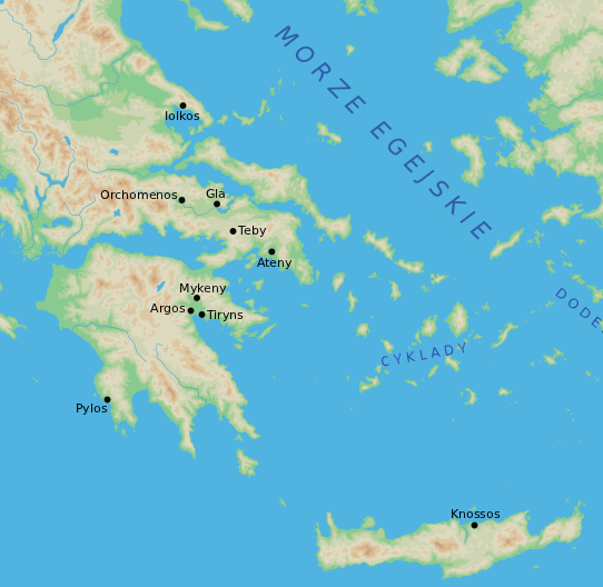 Important centers of mycenaean Greece. Blank map taken from